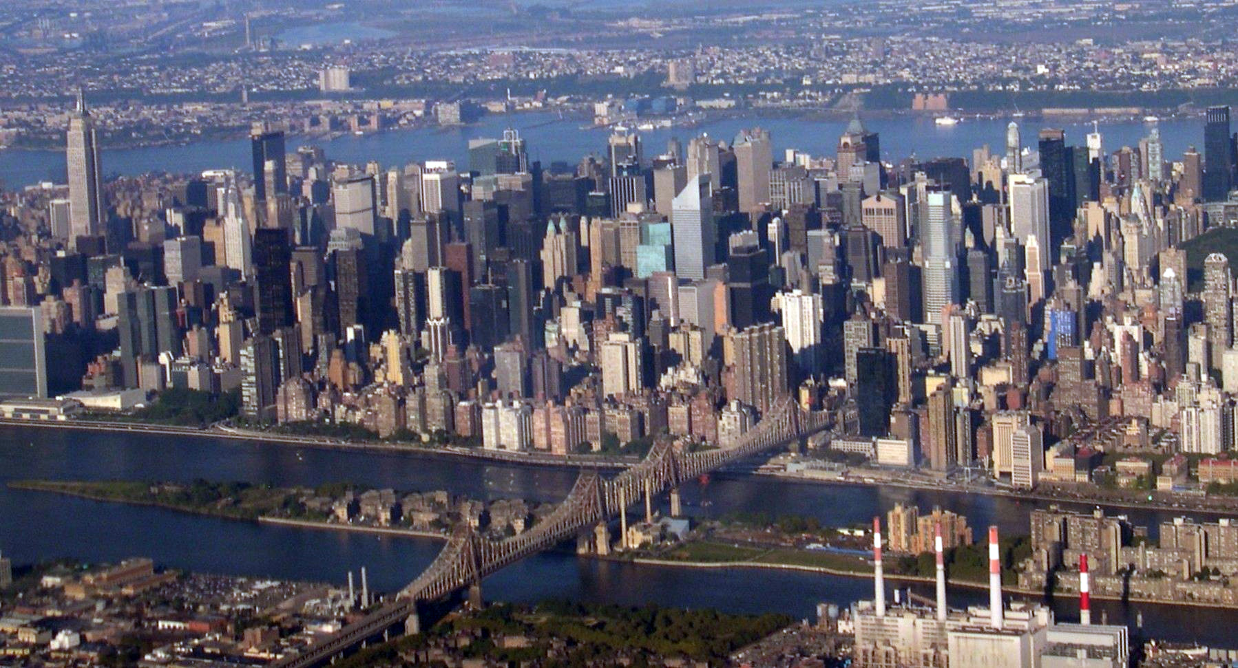 Aerial view of the Queensborough Bridge and Midtown Manhattan, New York.